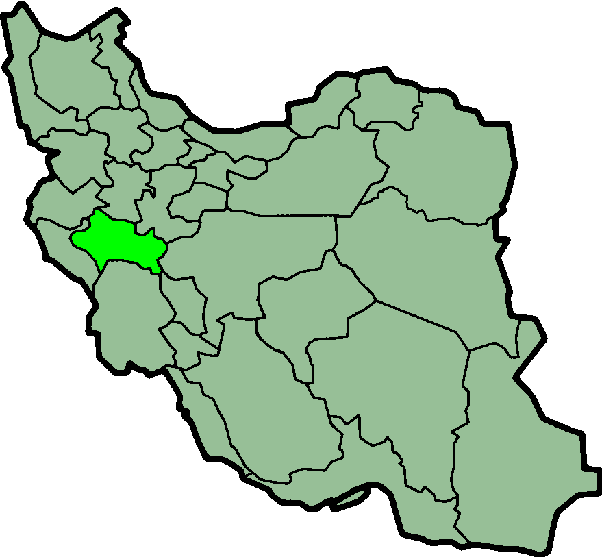 Province of Lorestan, Iran